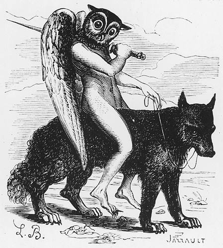 Demon "Andras" in Dictionnaire Infernal, Dictionnaire Infernal, scan downloaded from